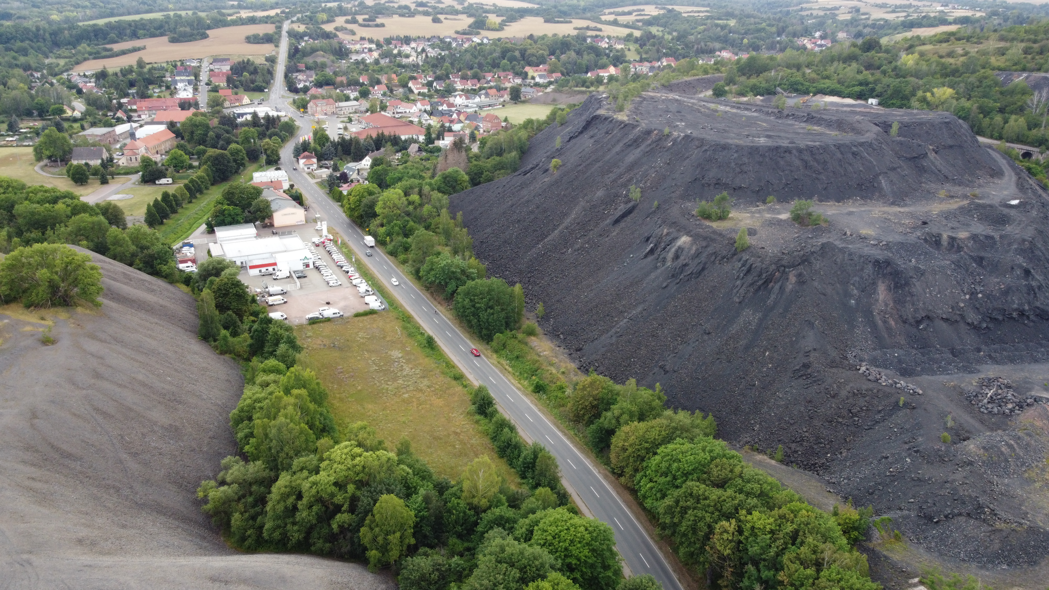 Stockpiles from kupferschiefer smelting in Wimmelburg / Saxony-Anhalt, slag stockpile on the right hand side, zechstein stockpile on the left hand side